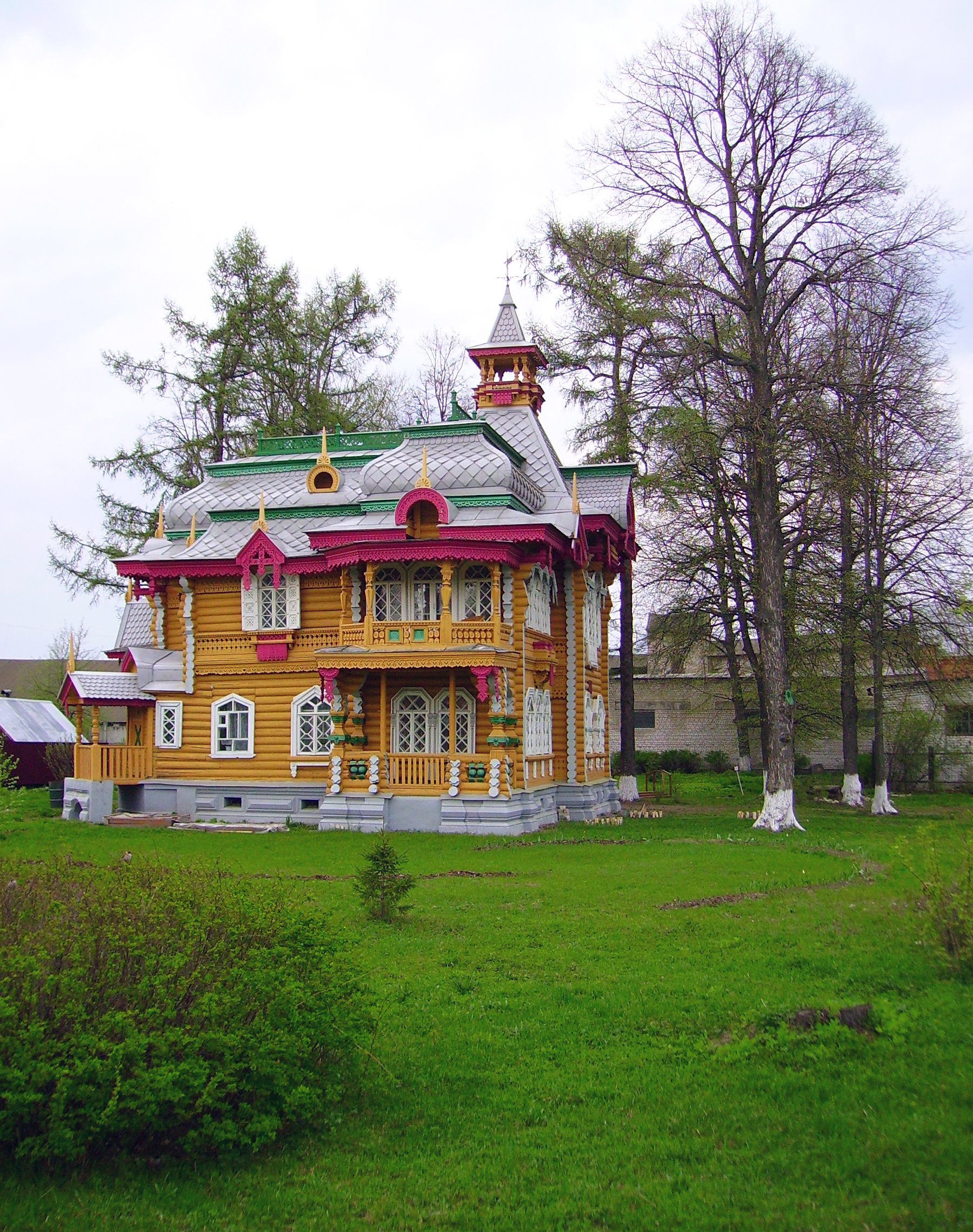 Volodarsk. Heritage building of Town Museum (former Bugrov House)